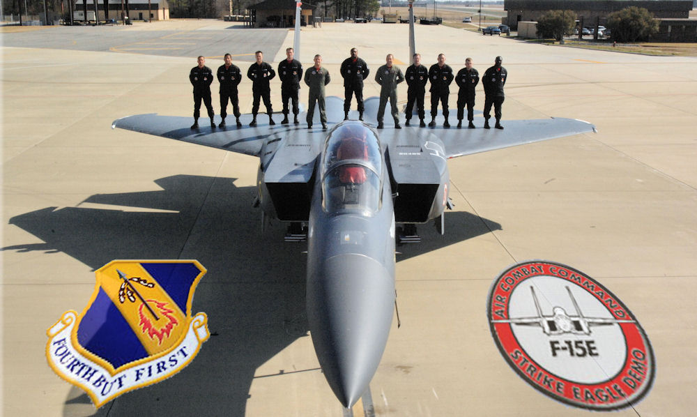 F-15E Strike Eagle Team, 4th Fighter Wing, Seymour Johnson AFB, NC